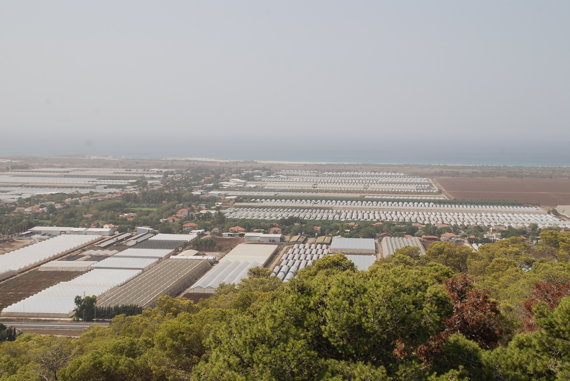 Zerufa, Agriculture in Israel